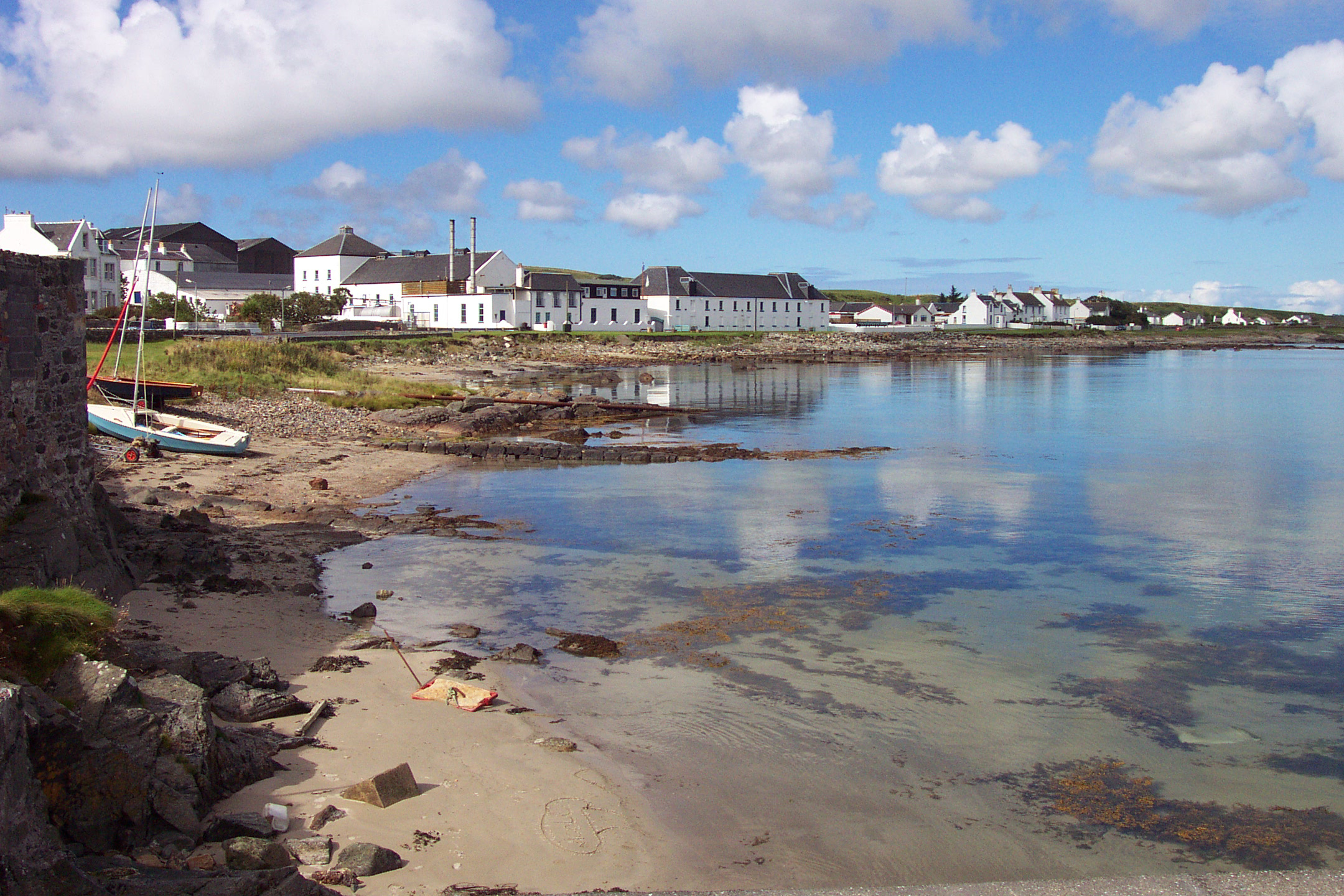 Distillery View